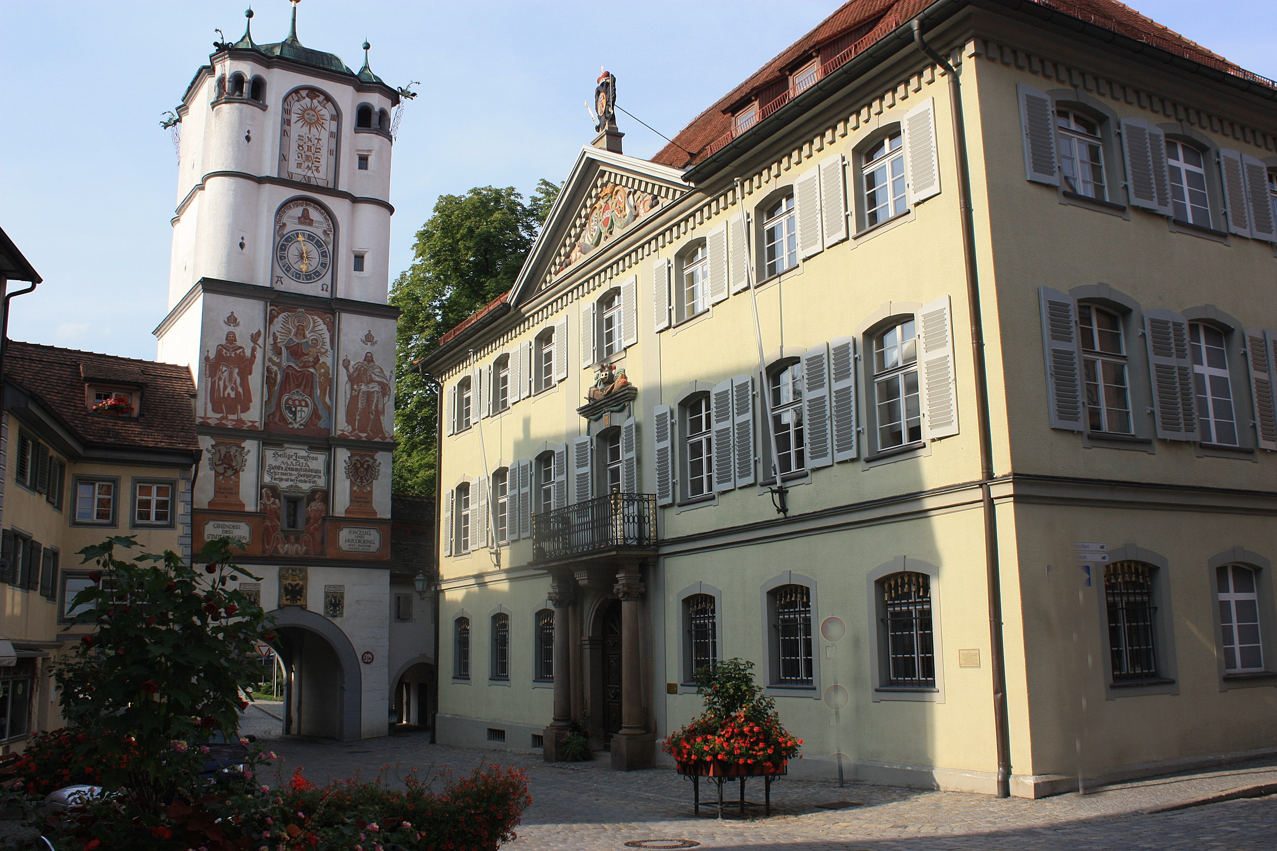 Wangen im Allgäu, the Ravensburg Gate and an administration building